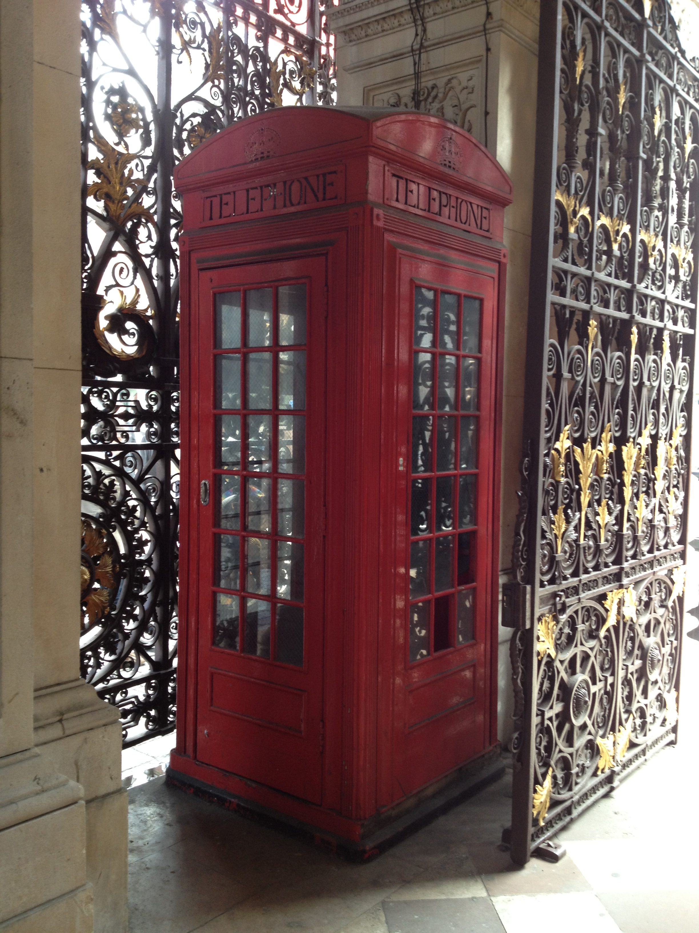 Wooden Prototype K2 telephone box in entrance arch to Royal Academy of Arts, London. This is a working telephone box